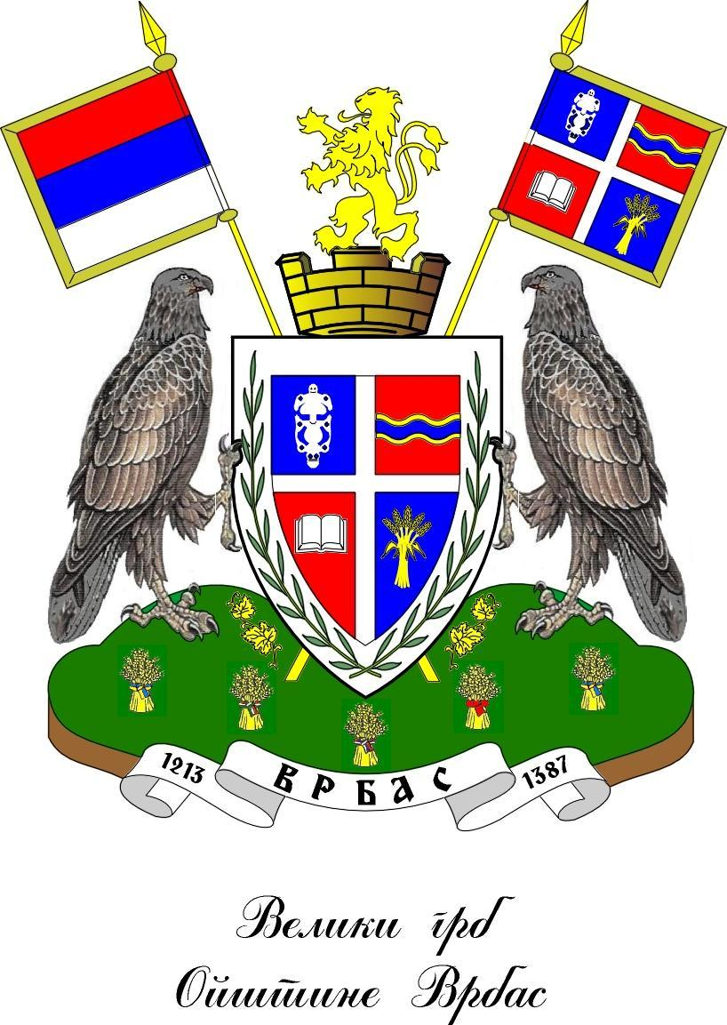 Vrbas coats of arms, Vojvodina, Serbia